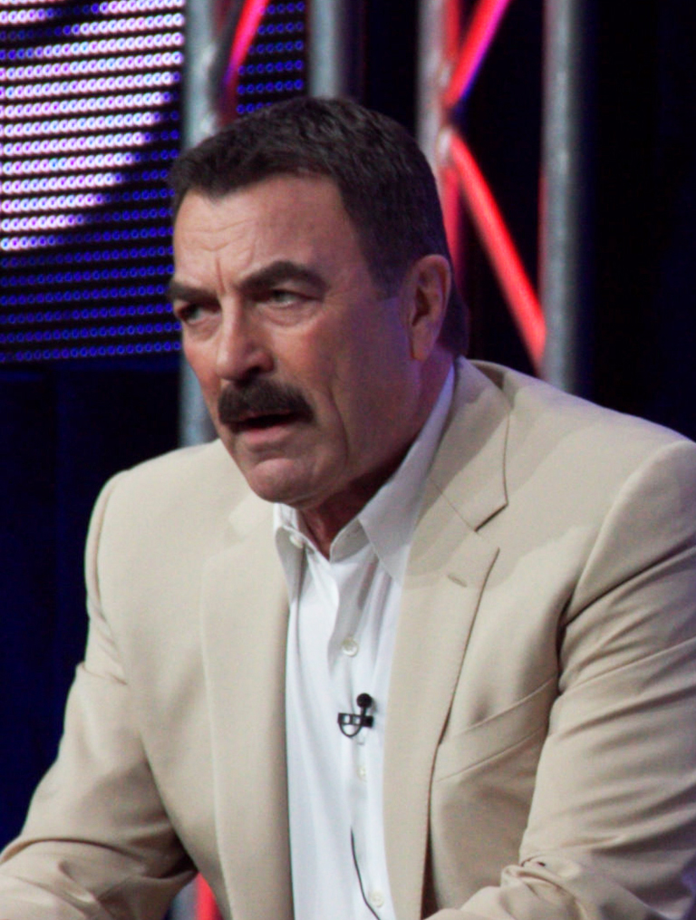 Cropped version of Blue Bloods cast TCA 2010.jpg